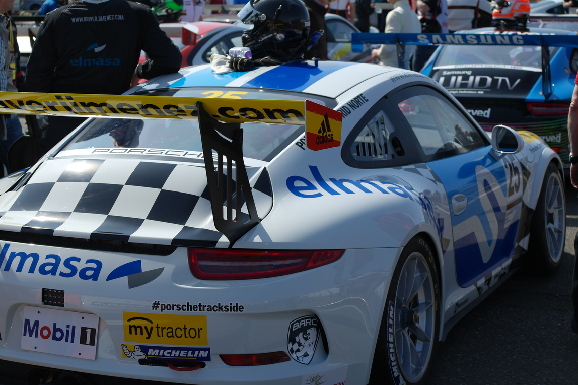 Elmasa Porsche Carrera #25 of Victor Jimenez at Brands Hatch